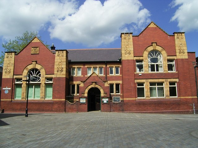 The Museum Originally this was one of the Carnegie Libraries funded by Andrew Carnegie the steel magnate; and what a gem it is. Built in 1905 in the Art Nouveau style by local architects Garside and Pennington. In 1897, a vote put to the people of Ponty', asked if they wanted a free library? 700 voted NO 150 voted YES so, when in 1902 Mr Carnegie was approached by a local businessman about funding a library he replied that it seemed that the local people did not want one, however he eventually relented and sent the money.